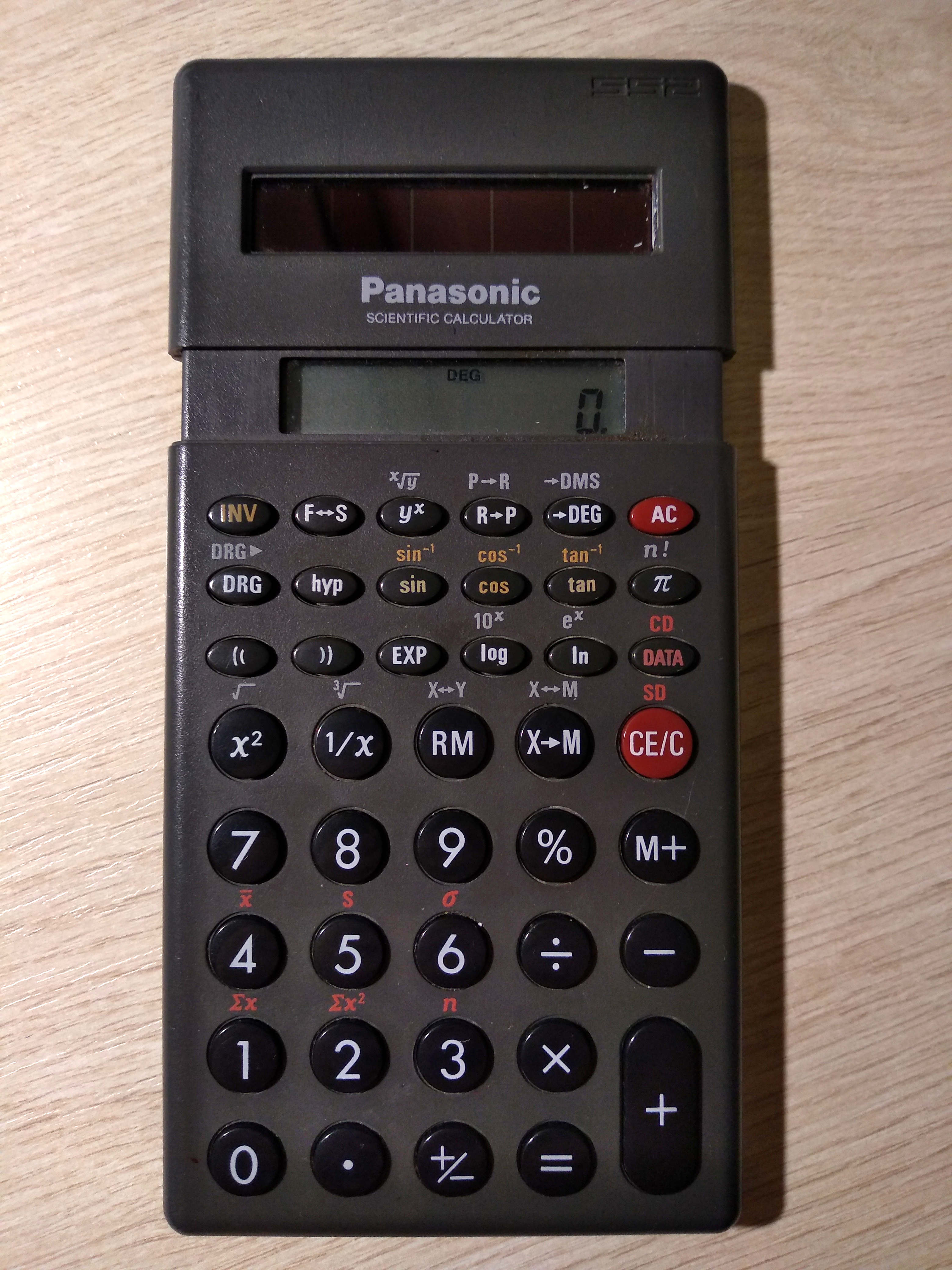 A Panasonic Model 552 (aka JE-552U) after pressing AC.